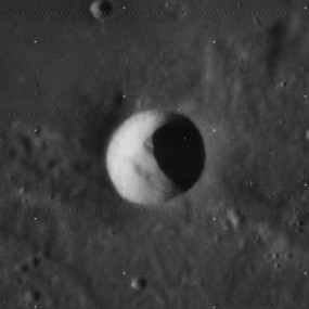 Bancroft, on the moon.